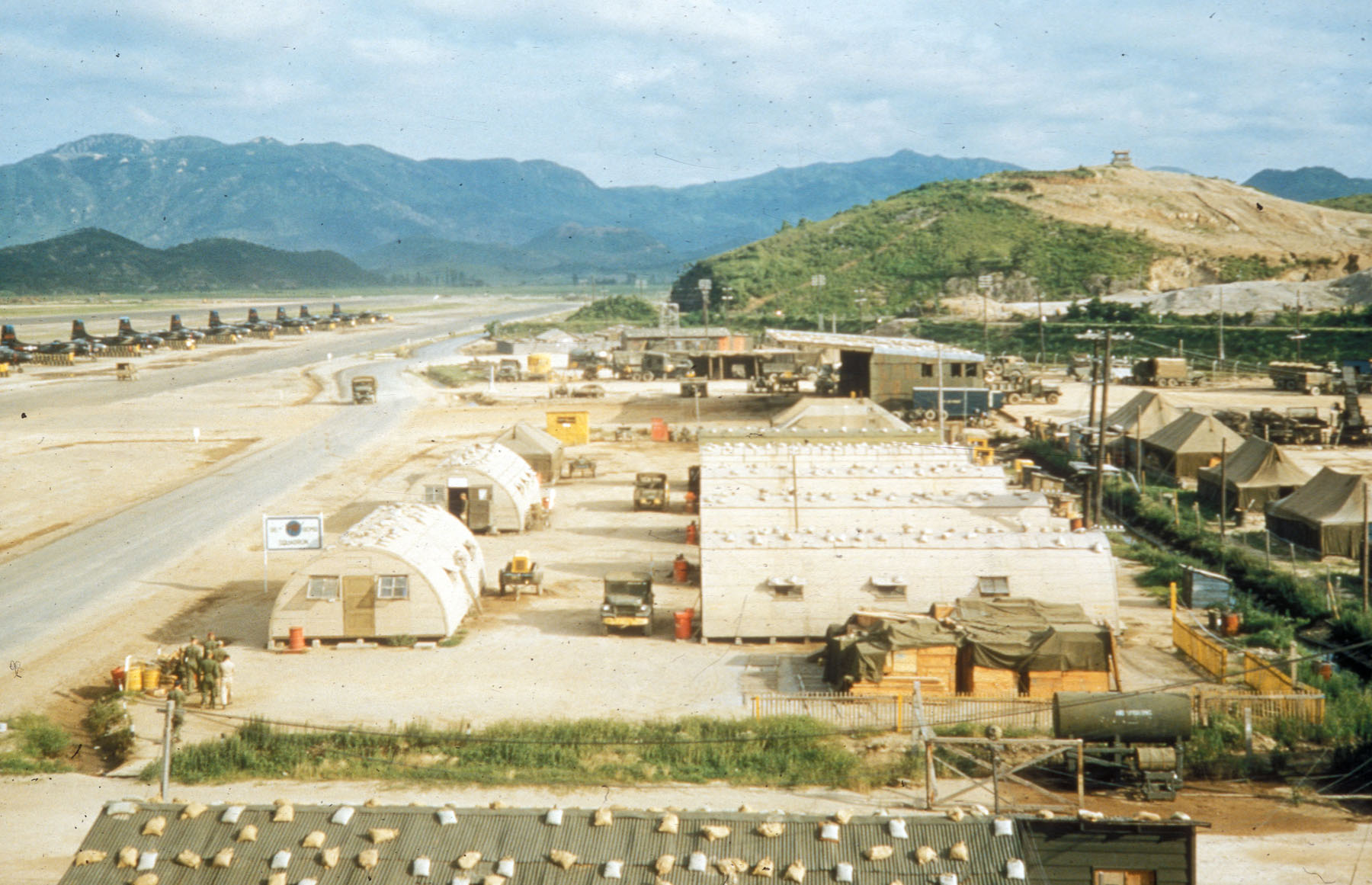 This photo of K-9 (Pusan East) in June 1953 shows a typical Korean air base at the end of the war. There are temporary corrugated metal buildings in the middle, while on the right are tent barracks. The Douglas B-26 Invader aircraft on the left are parked in the open, exposed to the elements.